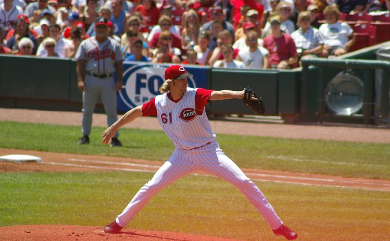 Bronson Arroyo